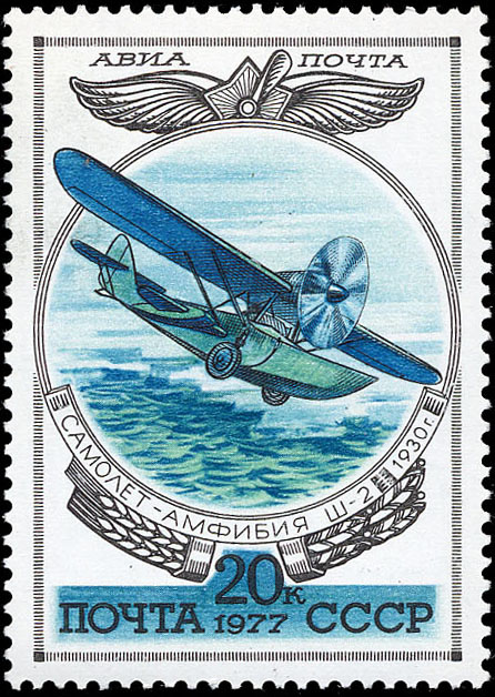 Commemorative stamp by the face value of 20 rubles issued by the soviet postal service in 1977 depicting an amphibian Shavrov Sh-2.